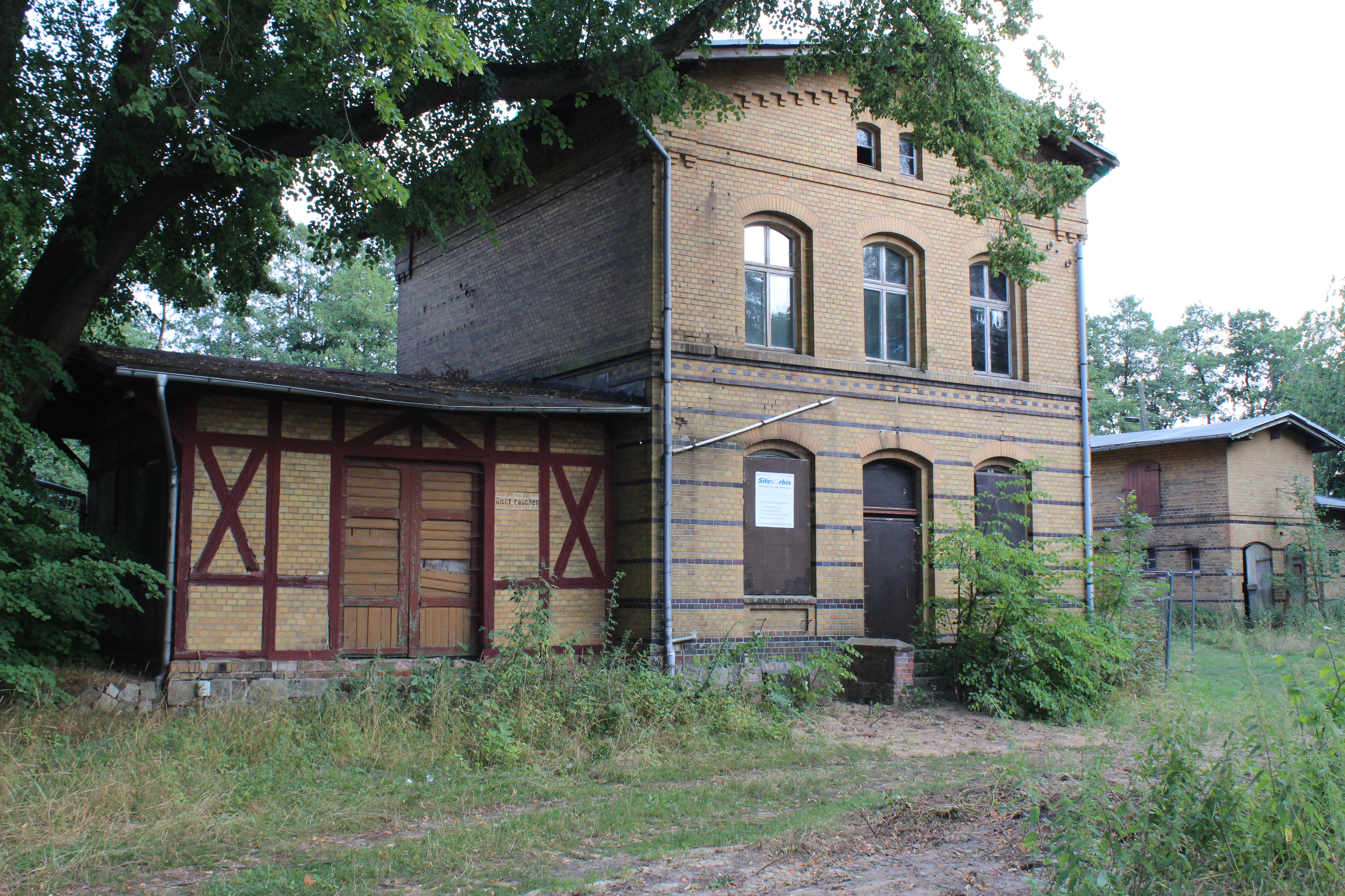 train station Brügge (Prign), station building, street side